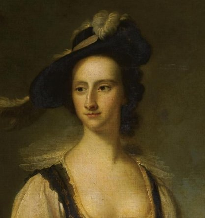 Miss Millicent Mundy - daughter of Wrightson Mundy. cropped from portrait